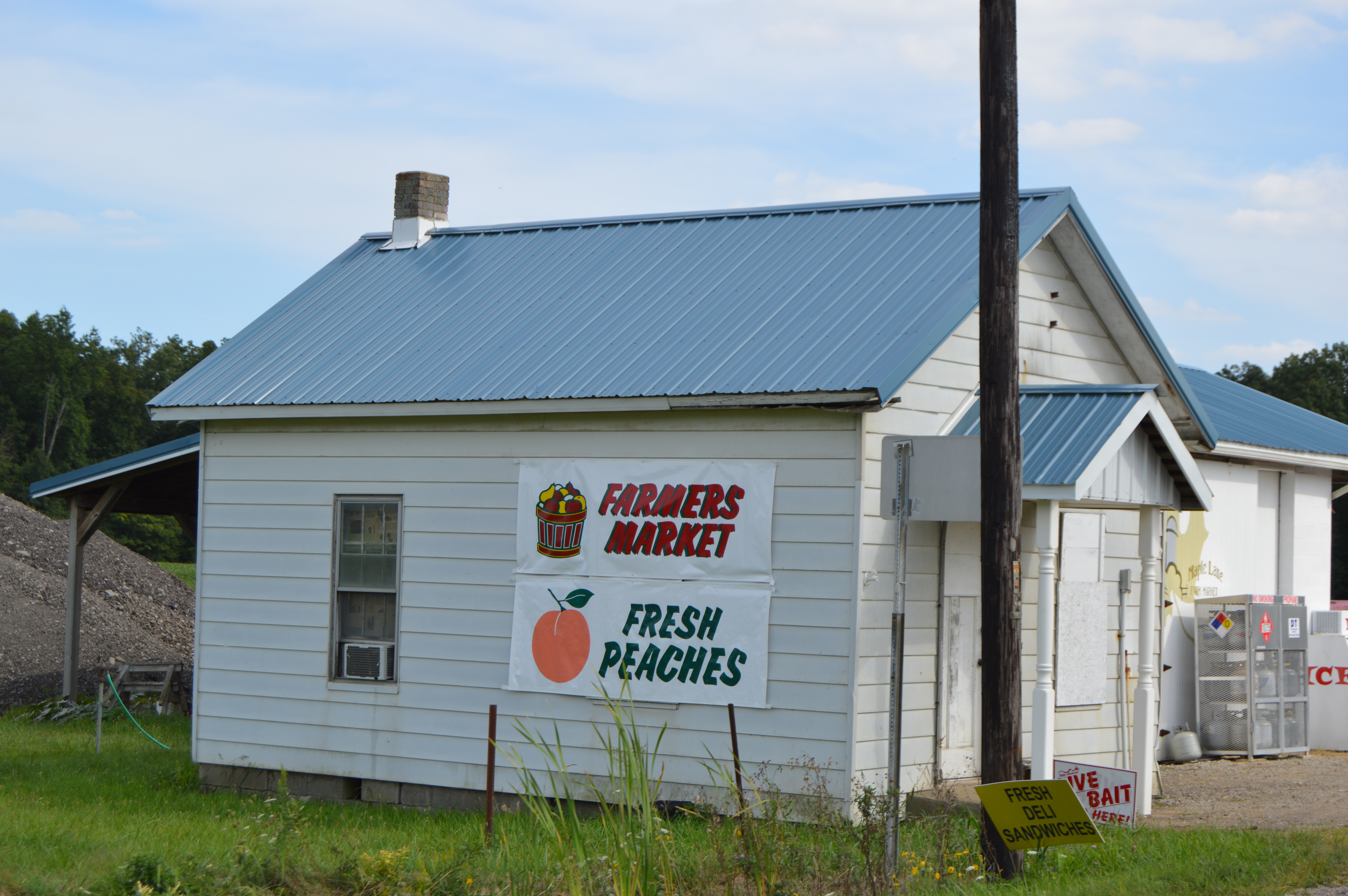 Front and northern side of the Troy Township hall, located former school (now a house) located on State Route 314 in Steam Corners, Ohio, United States.